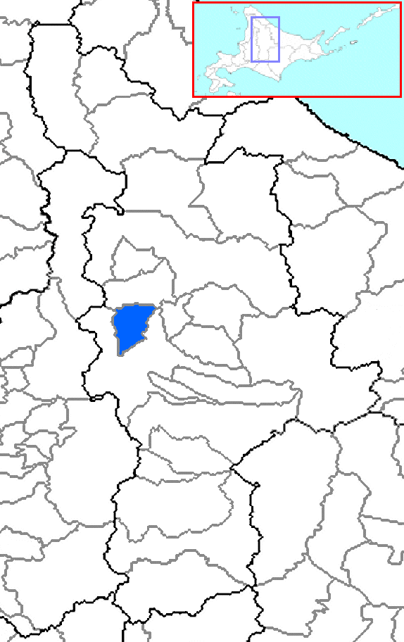 The location of Takasu in Kamikawa Subprefecture, Hokkaido Prefecture, Japan.